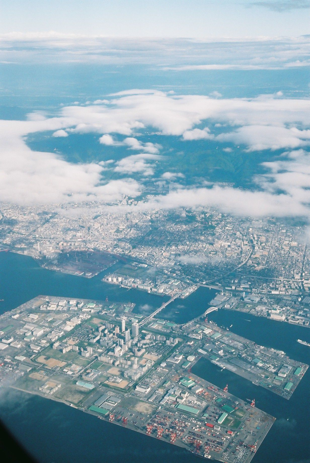 Rokkō Island, Kobe, Hyogo, Japan